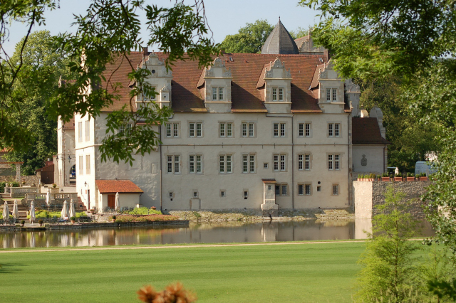 Germany / Town of Aerzen, castle of Münchhausen